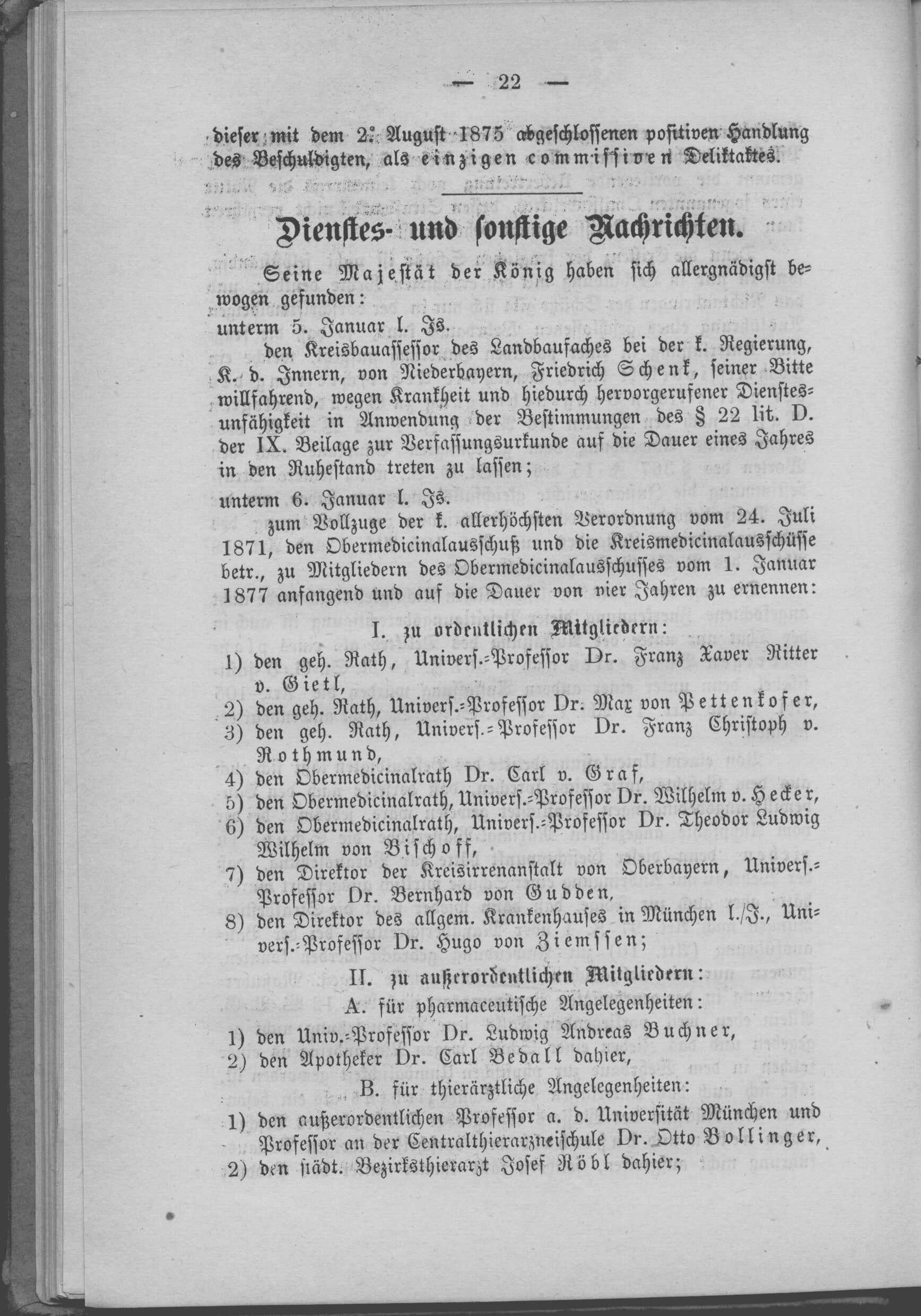 Scan from the Ministerial Law Gazette of Bavaria, 1877